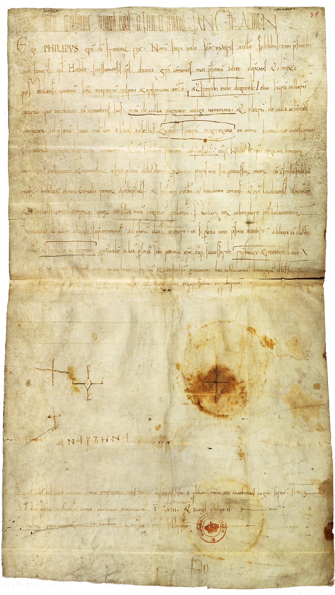 Diploma of the French king Philip I in favor of the Abbey of St. Crépin in Soissons, with autograph subscription by Anne of Kiev, Queen of France. 1063 CE